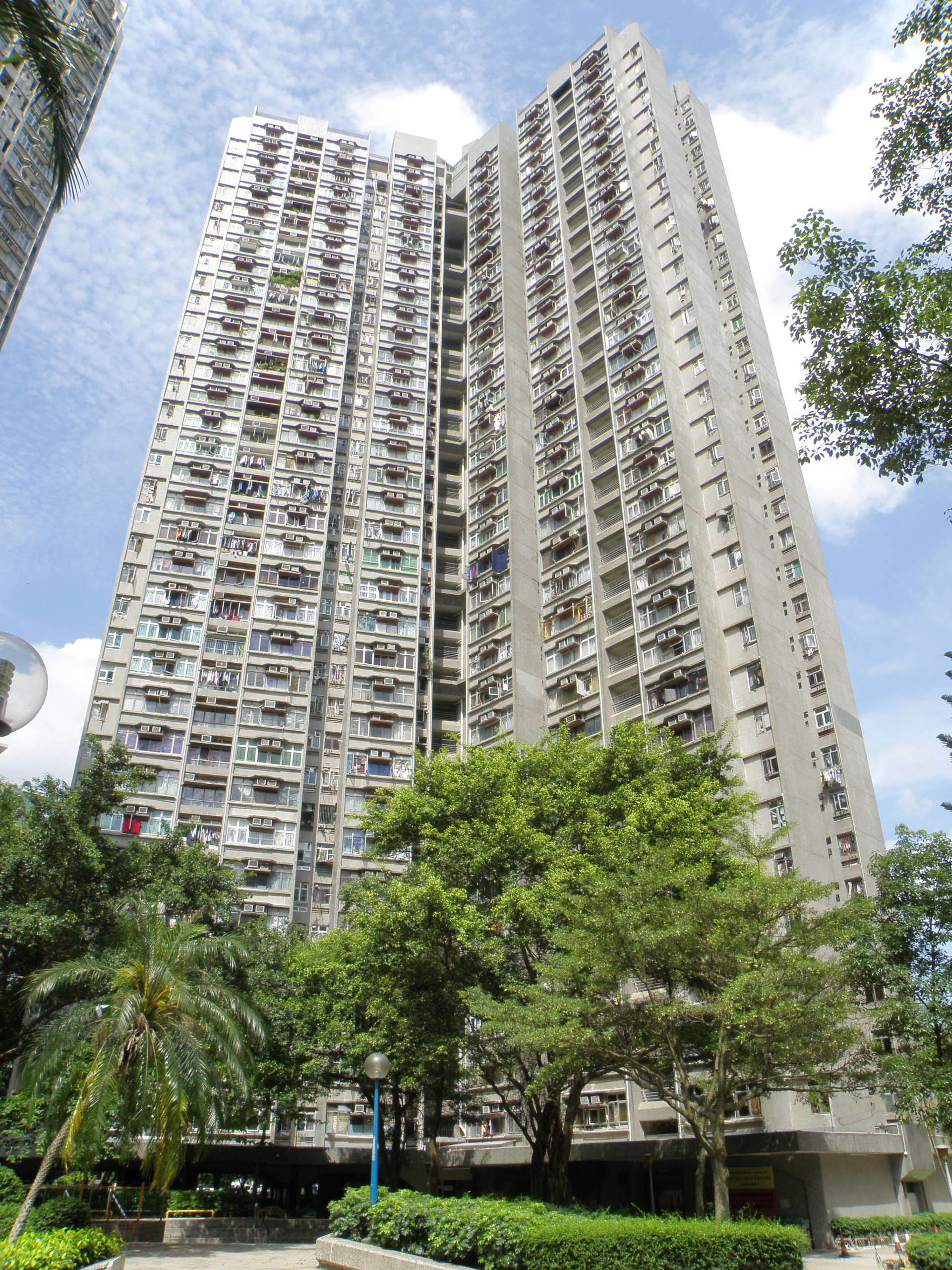 On Shing Court in Sheung Shui, Hong Kong.